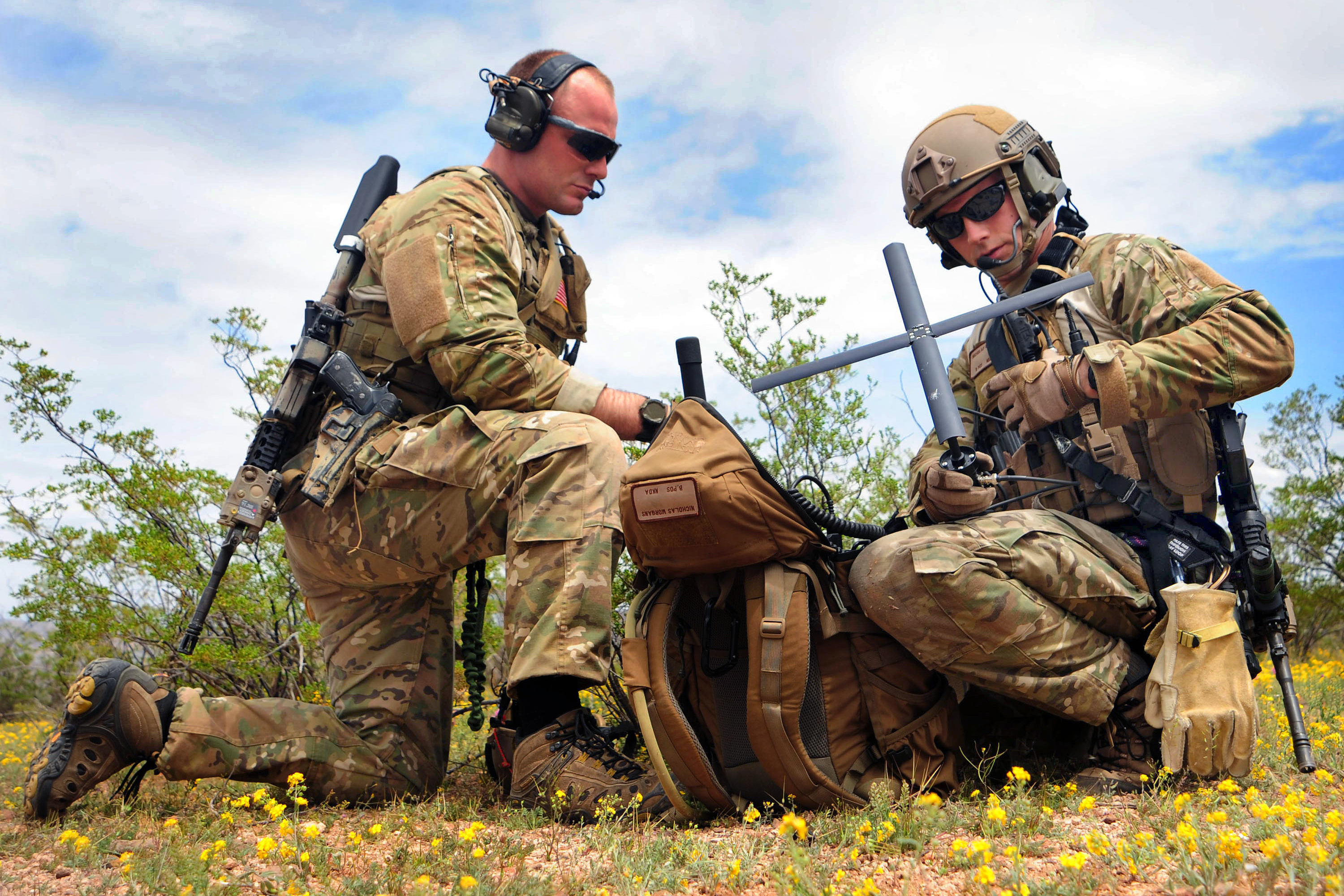 U.S. Air Force pararescuemen assemble a PRC-152 radio during an earthquake-response exercise scenario as part of Angel Thunder 2010, Southern Arizona, April 19, 2010. The airmen are assigned to the 38th Rescue Squadron.